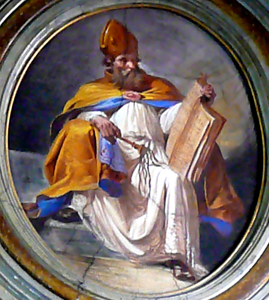 St. Ambrose with Book and Whip Oil on canvas, Church of San Giuseppe alla Lungara, Rome The whip in the bishop's hand sometimes has just three cords, betokening the Trinity that was denied by Ambrose's foes the Arians, but in this painting it has several.